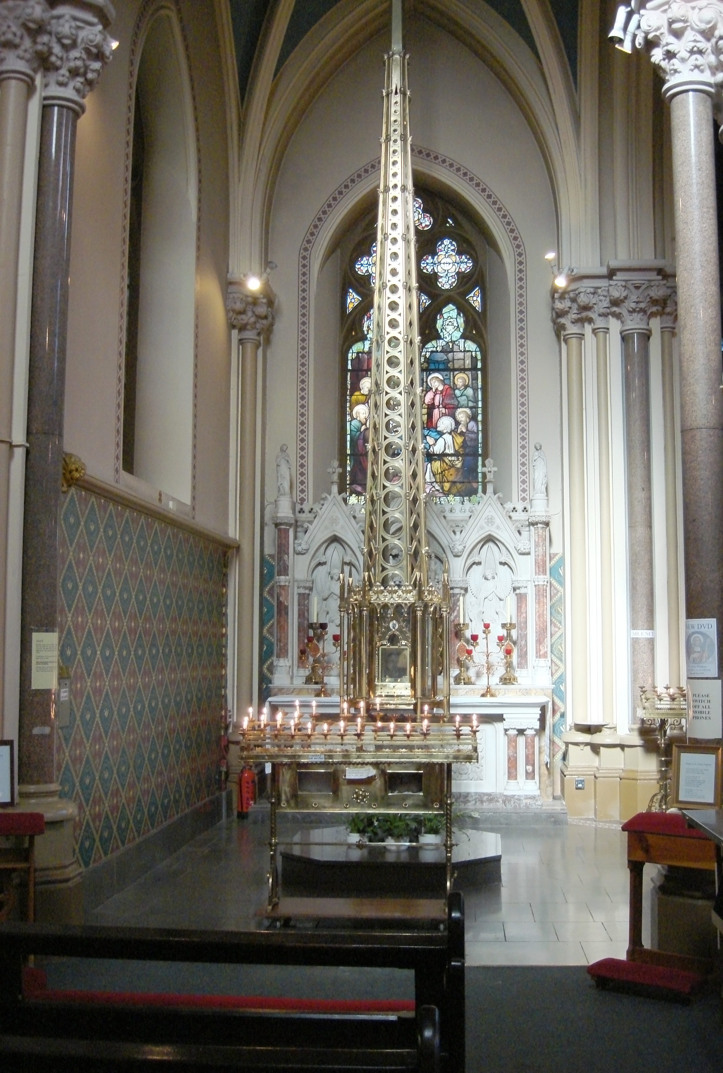 The shrine of St. Oliver Plunkett at St. Peter's Roman Catholic Church, Drogheda, Ireland.The martyr's head is just visible in the box under the spire.